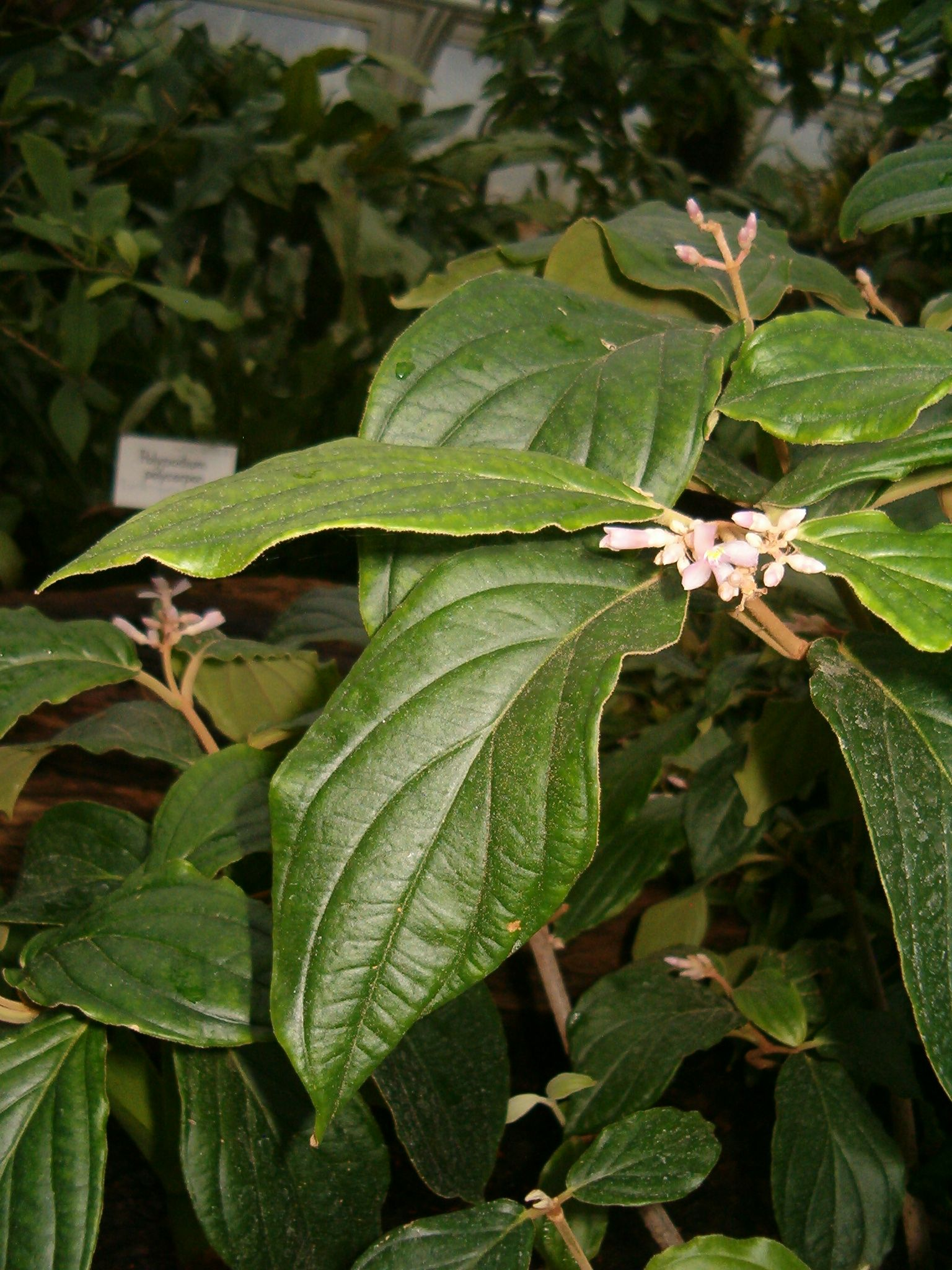 Location: Botanical Gardens Berlin Dahlem